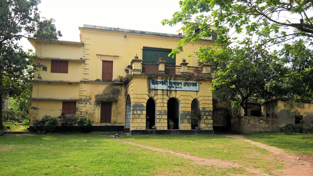 One of the oldest library in Rajshahi. That was formarly known as Rajshahi Sadharon Pustakaloy. In 1975 it has been changed to Rajshahi General Library.